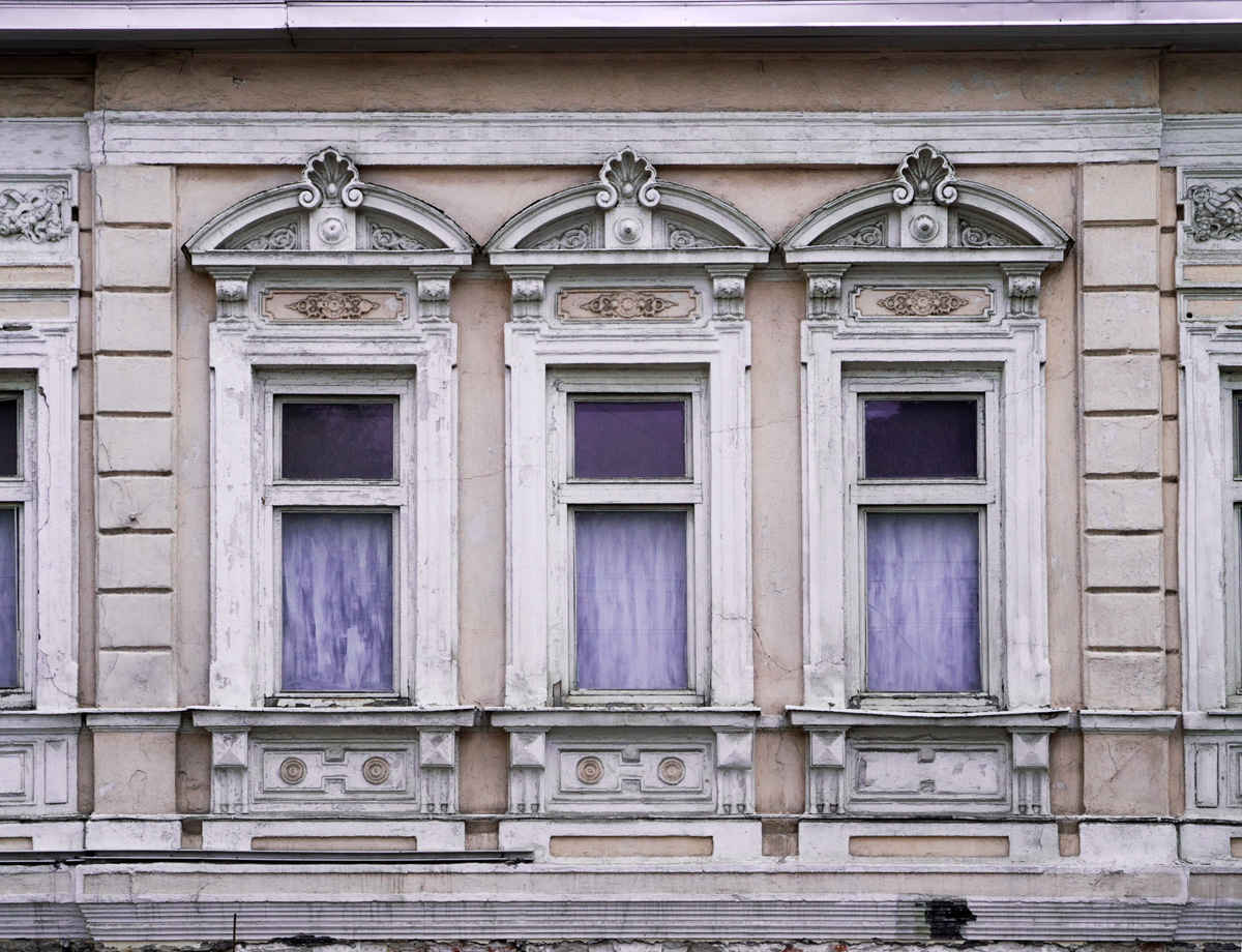 A run-down historical house in Malaya Nikitskaya Street, Moscow